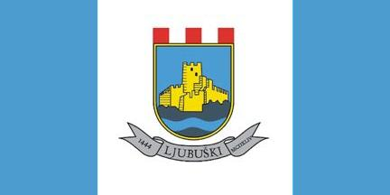 Flag of the municipality Ljubuški